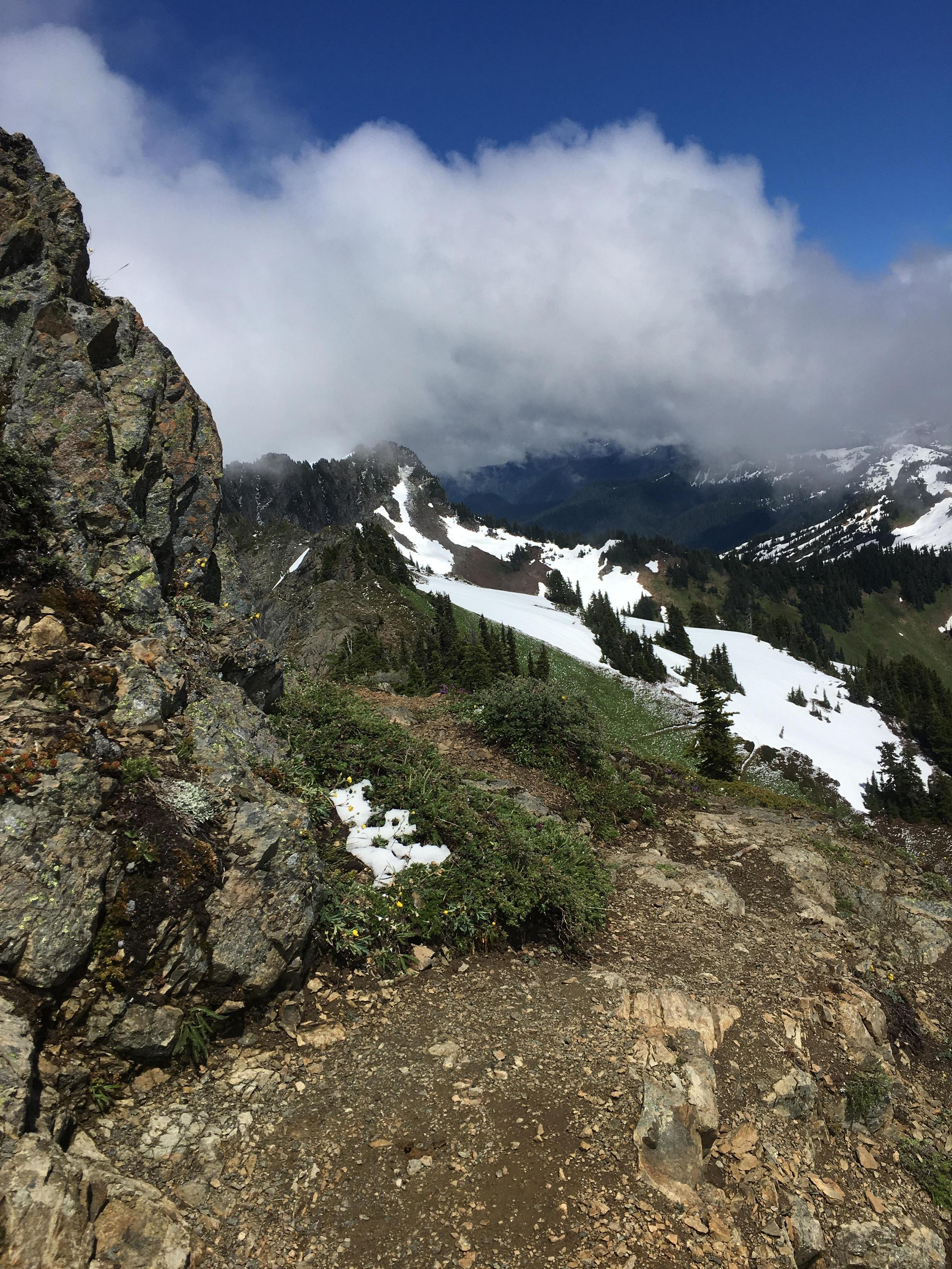 Photo taken looking South from the end of the trail near Church Mountain summit.